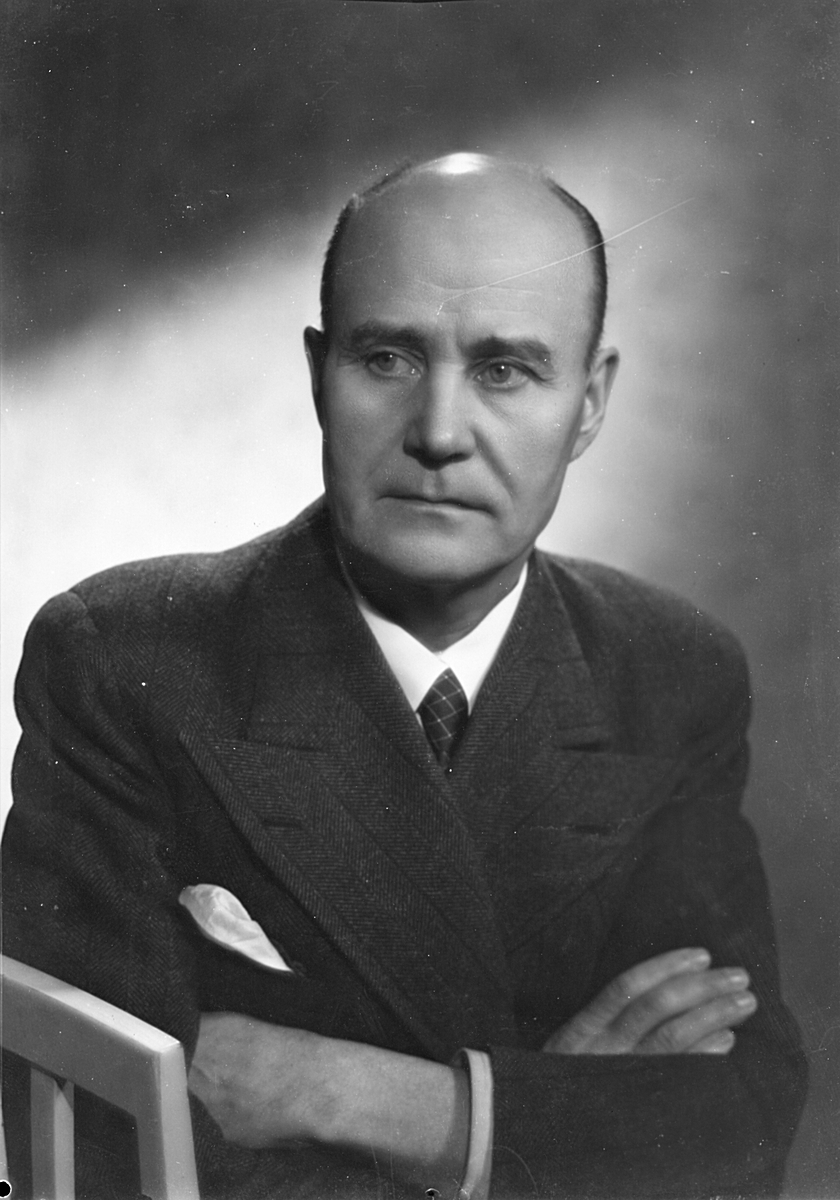 Photograph of the Finnish stage actor and director Wilho Ilmari (1888–1983).